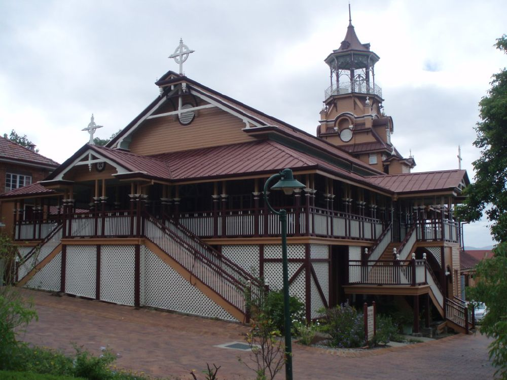 The Range Convent and High School, School house (2009)